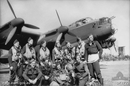 Aircrew and ground staff from No. 467 Squadron RAAF with one of the Squadron's Lancaster bombers at RAF Station Waddington after the squadron had returned from a daylight attack on enemy airfields in Holland.